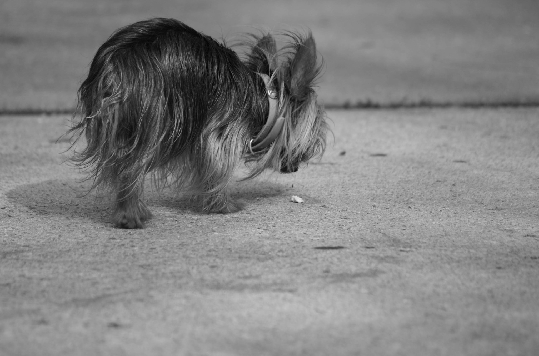 Picture of a dog sniffing a cigarette butt. The dog is a teacup Yorkshire Terrier. Taken in front of Strozier Library, Florida State University, Tallahassee, Florida